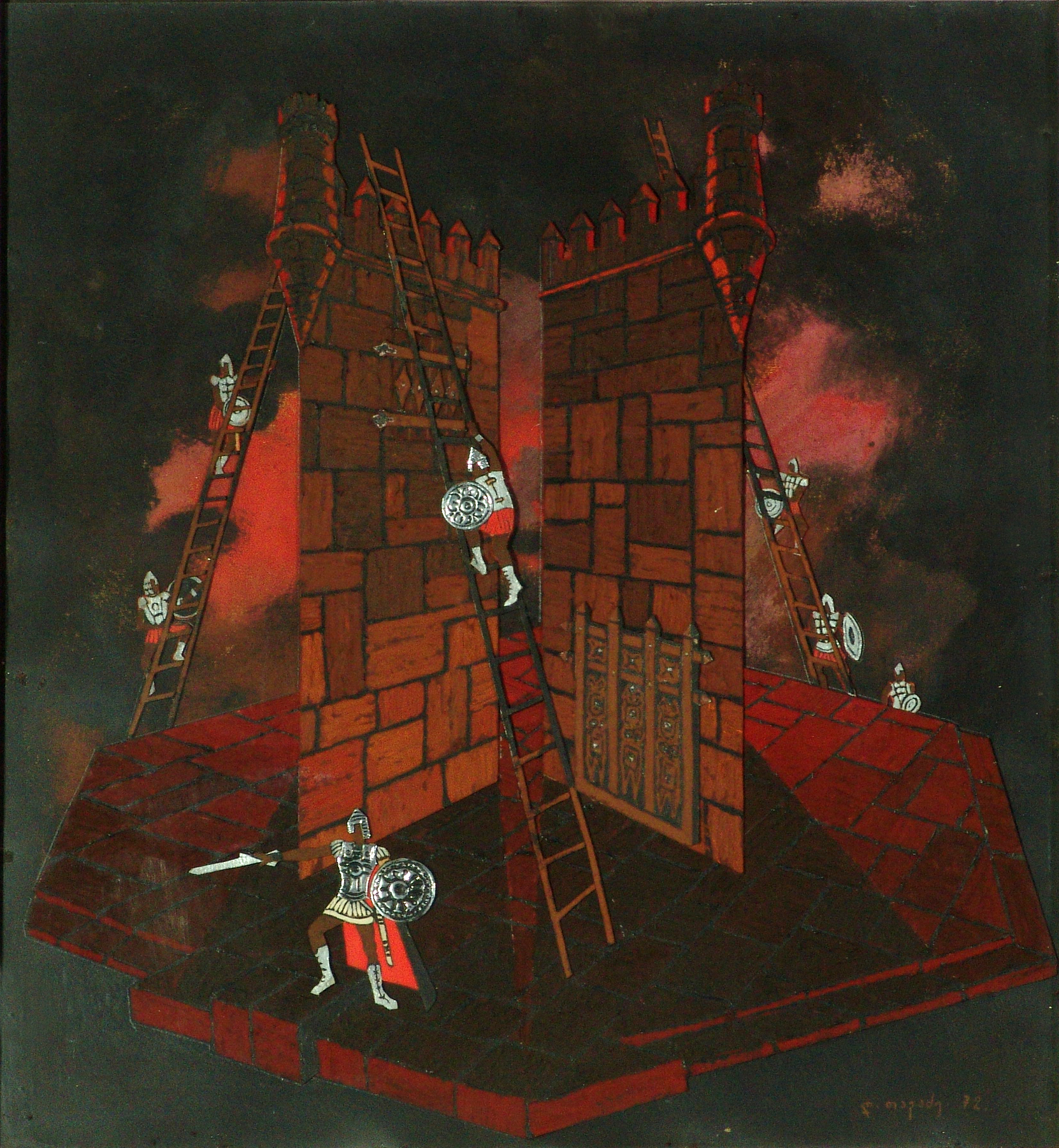 Author: Dimitri Tavadze; Year: 1974; Shakespeare – Julius Caesar